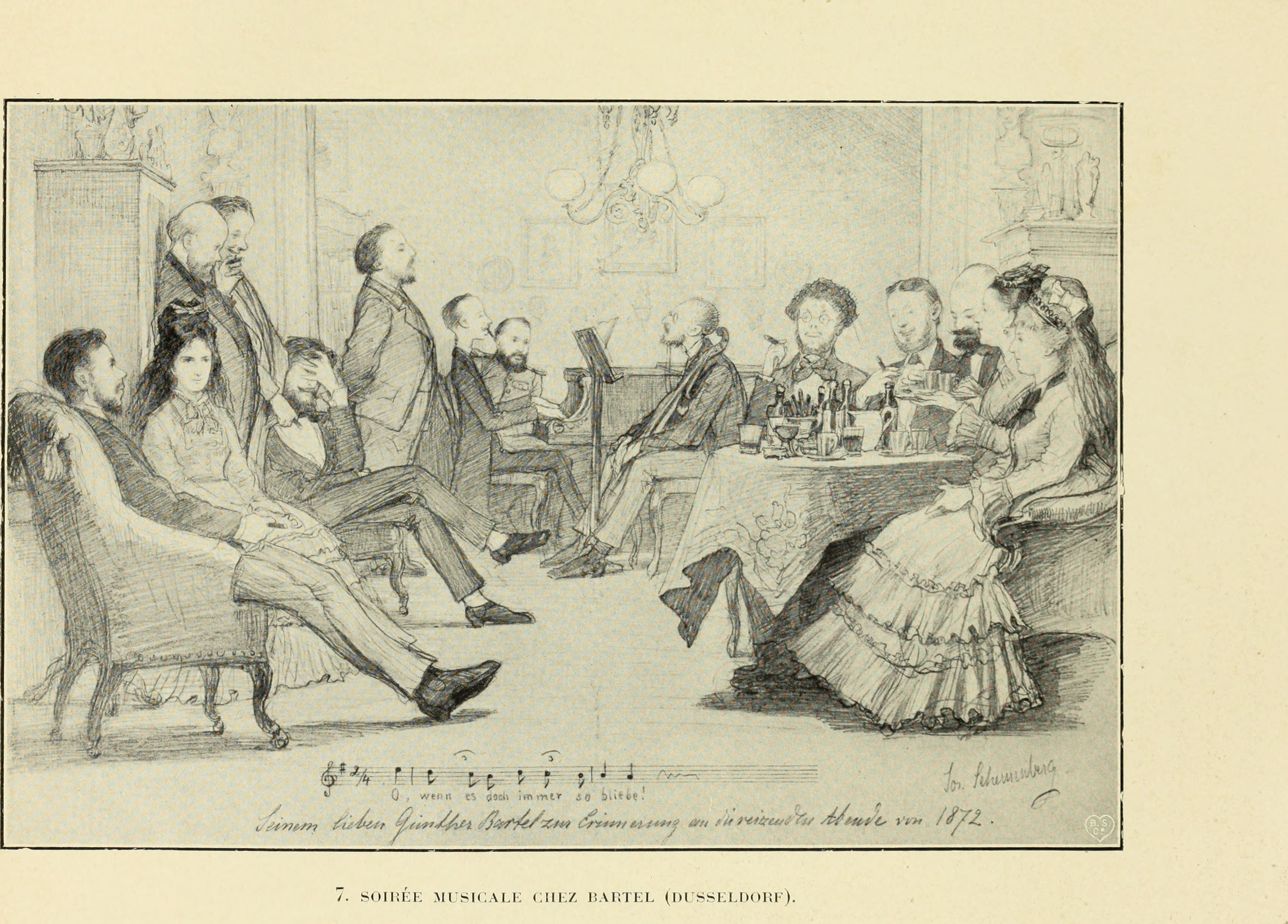 Title: Ladislas de Paal, un peintre hongrois de l'École de Barbizon Year: 1904 (1900s) Authors: Lázár, Béla, 1869-1950 De Paal, Ladislas Subjects: De Paal, Ladislas Publisher: Paris, Librairie de l'art ancien et moderne Text Appearing Before Image: ' Text Appearing After Image: LE JEUNE MAITRE. 33 nouveau la bourse, il partit donc seul, en se donnant totalement à sesétudes. Il fut très satisfait de ce voyage, dont il rapporta de nombreuxcroquis, et où il avait pu se plonger dans létude de la nature. A Beilen aussi on laima beaucoup ; le bourgmestre, le curé, lemédecin lécoutaient avec plaisir lorsquil leur parlait de son pays loin-tain. Ce nest quen novembre quil retourna à Dusseldorf, où ilbabita de nouveau avec Munkâcsy. Ayant reçu entre temps la bourse,il se remit à mener une vie joyeuse, insouciante, mais laborieuse, aumilieu de ses camarades et de la bonne société. Passionné pour lamusique, il fréquente assidûment les soirées musicales de son amiGustave Bartel, le professeur de musique (Fig. 7), va aux bals don-nés chez des particuliers, aux festivals de Cologne, il prend part auxsoirées costumées du Mahlkasten (Fig. 8); plus dune fois, avec Munkâcsy,il exhale sa tristesse jusquà laube à côté dune musique de tziganes ; ilécri